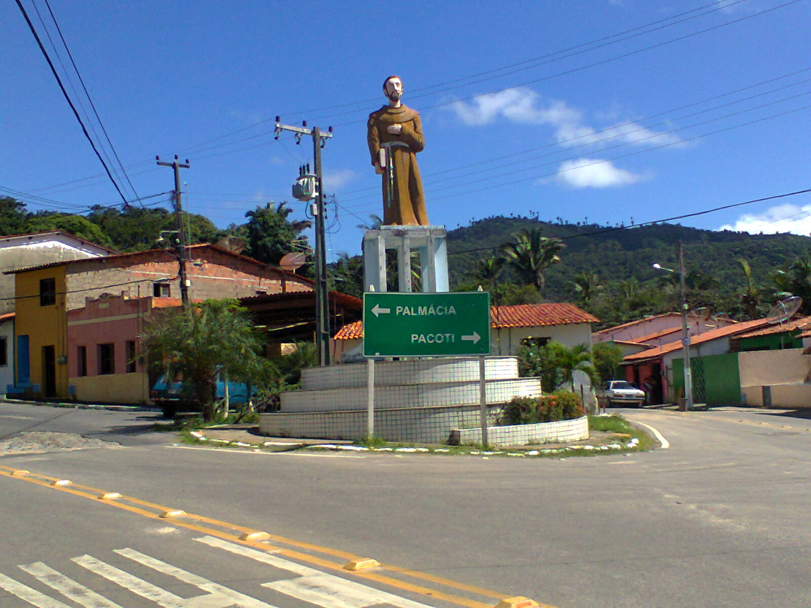 Estátua de São Francisco